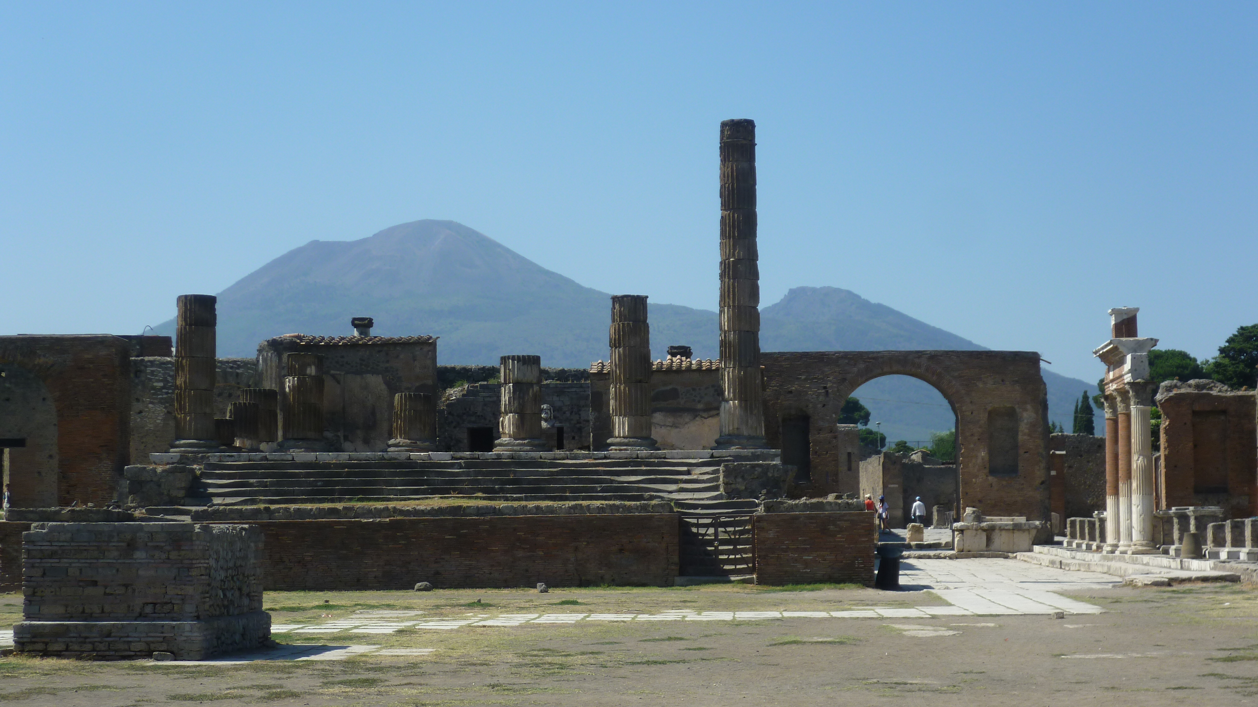 View from the Forum looking towards the Temple of Jupiter